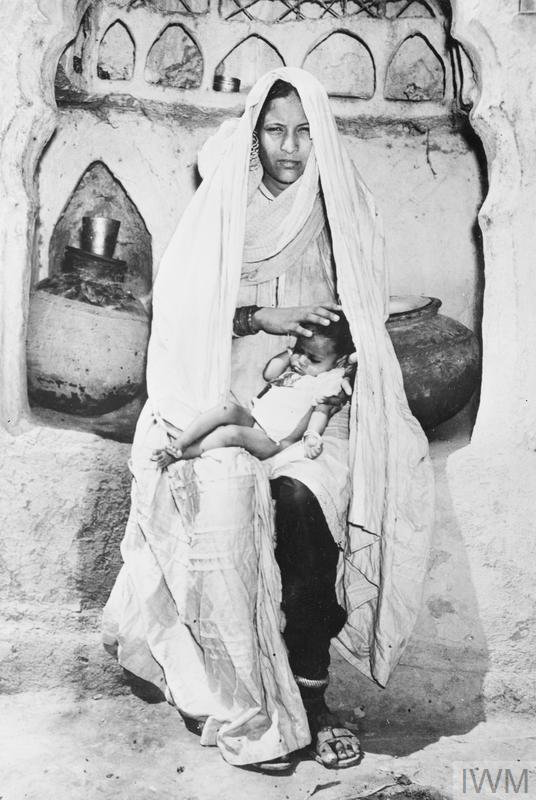 VICTORIA CROSS WINNERS: 1939-1945. (IND 3507) Jugri Begum, widow of Jemander Abdul Hafiz V.C. of the 9th Jat Regiment, with her three month old daughter. Abdul Hafiz never saw the baby.